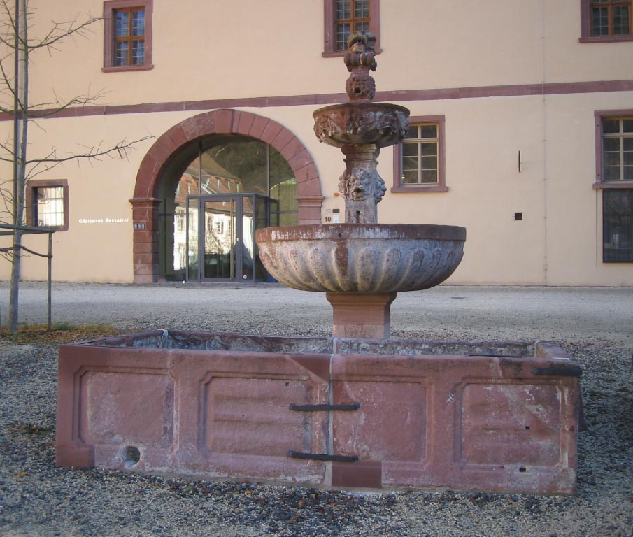 Fountain in the lower access yard of Kloster Bronnbach.